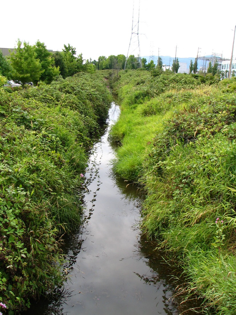 This image was created by me, Flying Penguin of Pacific Spirit Photography ( of Burnaby, British Columbia, Canada